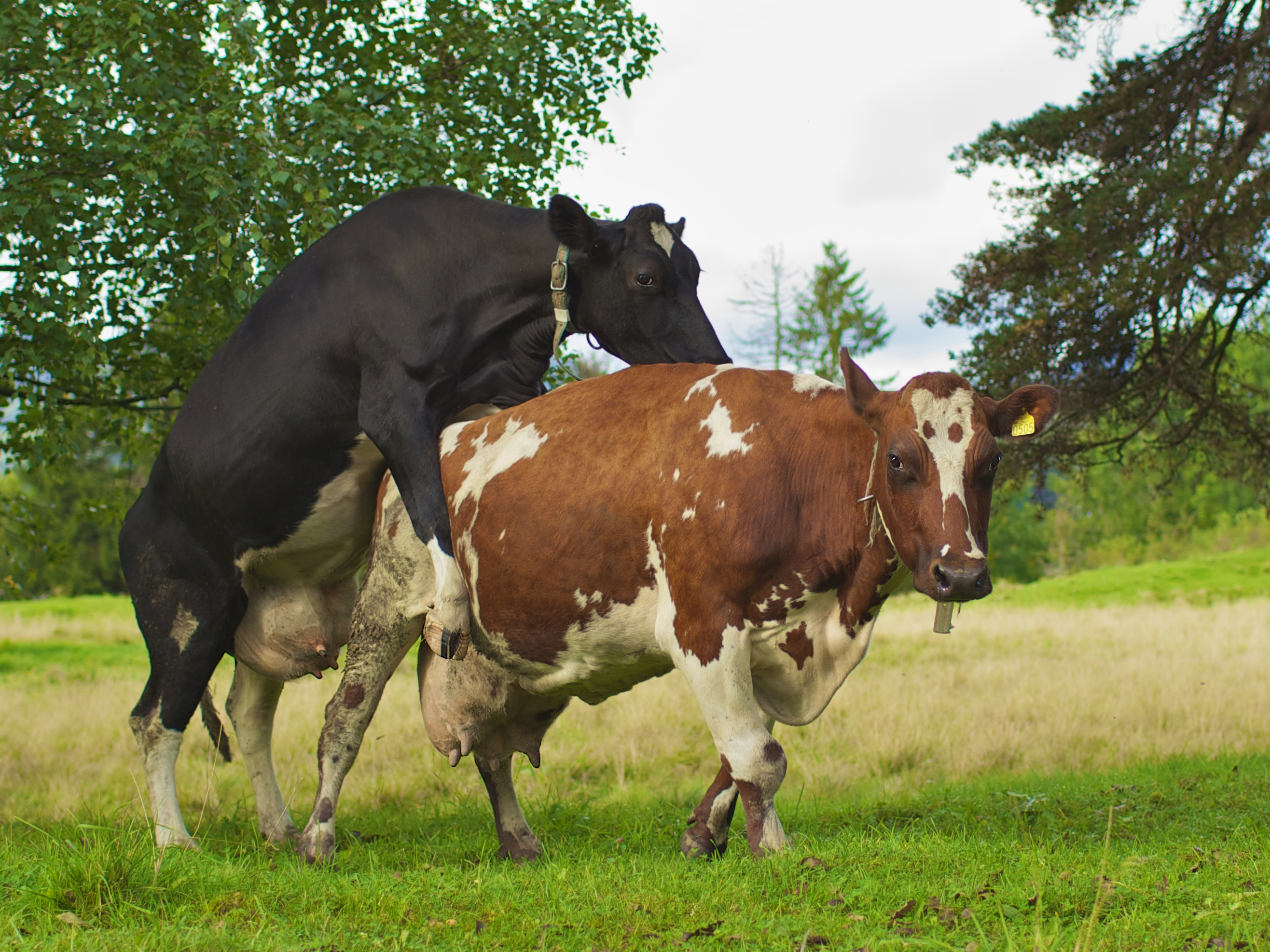 Can't wait for the bull